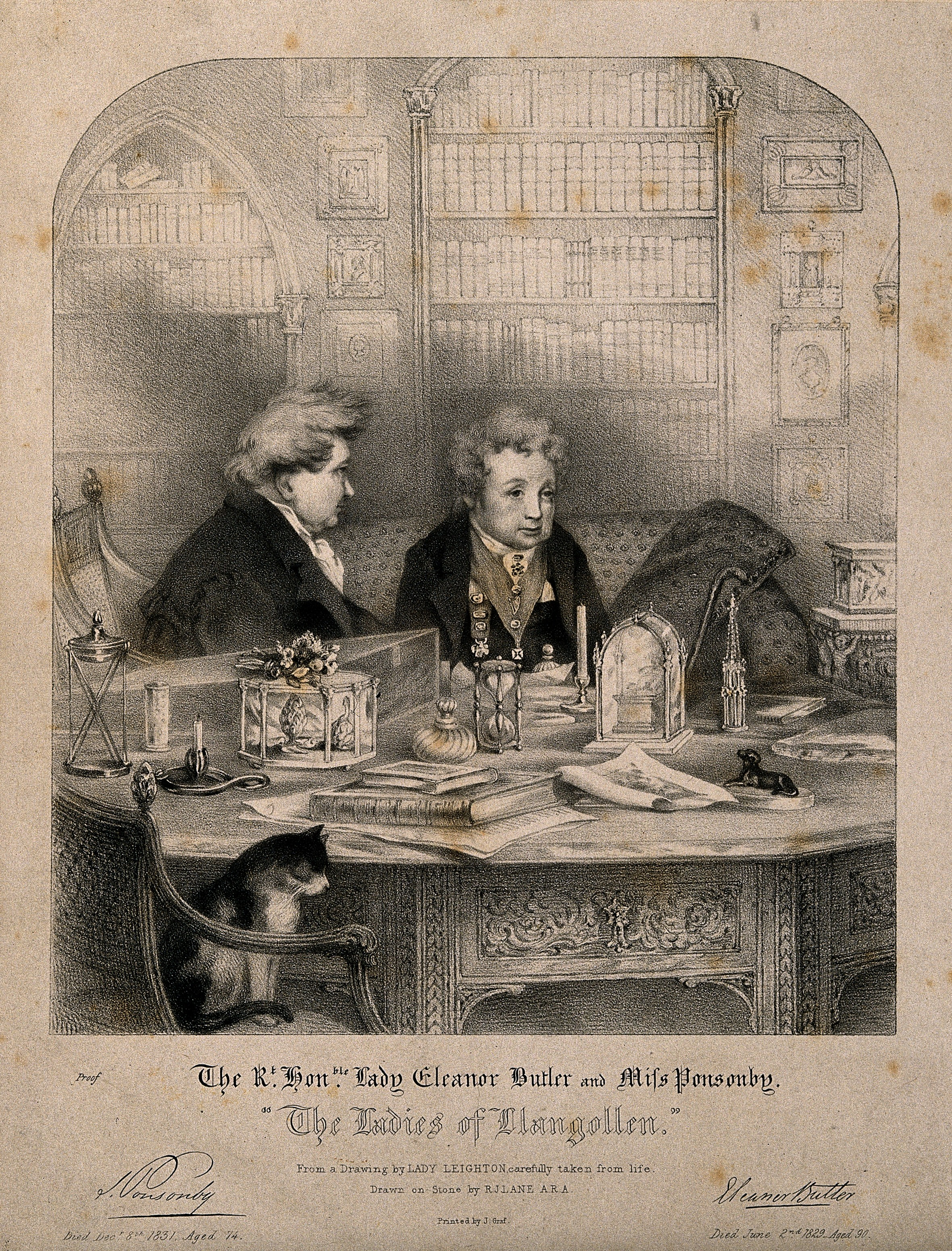 Topic-LCSH: Recluses. Lesbians. Private libraries. Books. Cats. Genre/Technique: Portrait prints. Lithographs. Subject name: Butler, Eleanor, Lady, 1738 or 1739-1829